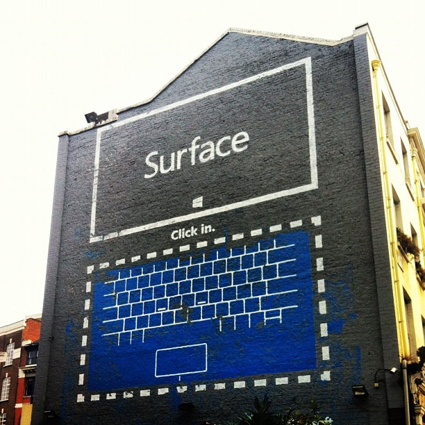 Microsoft Surface street commercial